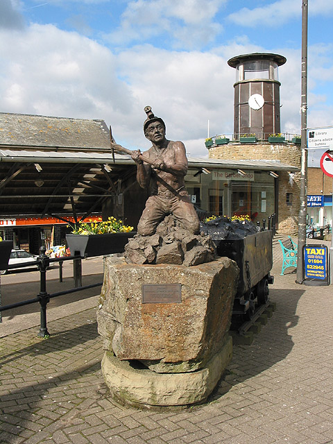 Miners' Tribute by Antony Dufort In the area of Cinderford known as The Triangle is Dufort's superb sculpture. Coal mining was one of the area’'s main industries until the last of five large mines closed in 1965. Mining is still undertaken at a few small mines operated by Freeminers. The centuries old mining rights which applied to iron ore, coal and other minerals and even quarrying for stone, entitle any male born within the hundred of St Briavels, aged 21 or more and who has worked for a year and a day in a mine to legally register as a Freeminer.